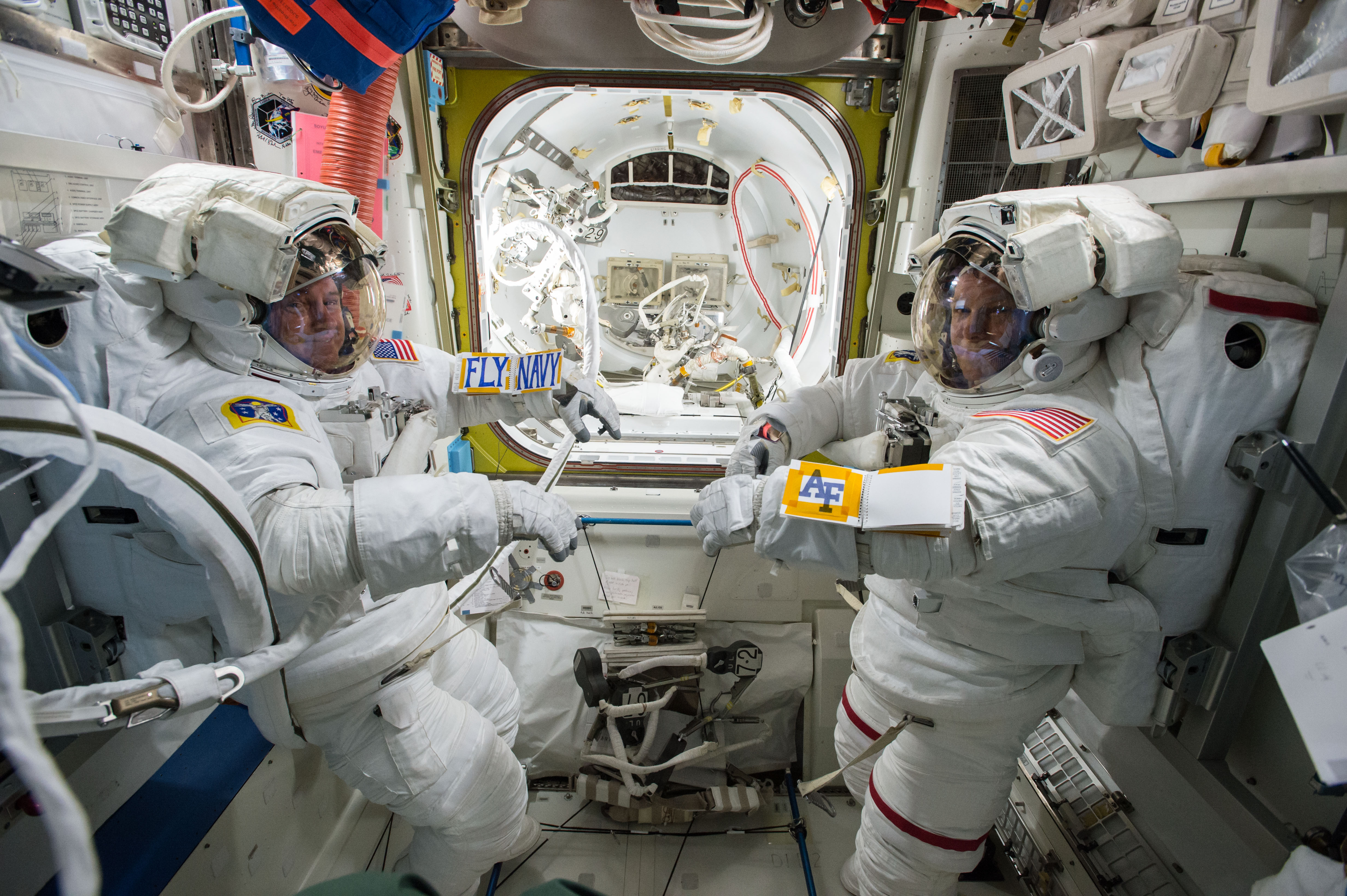 US astronauts Barry "Butch" Wilmore and Terry Virts are suited up Mar 1, 2015 for a later spacewalk outside the International Space Station.